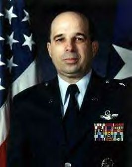 Image of B. General Antonio J. Ramos